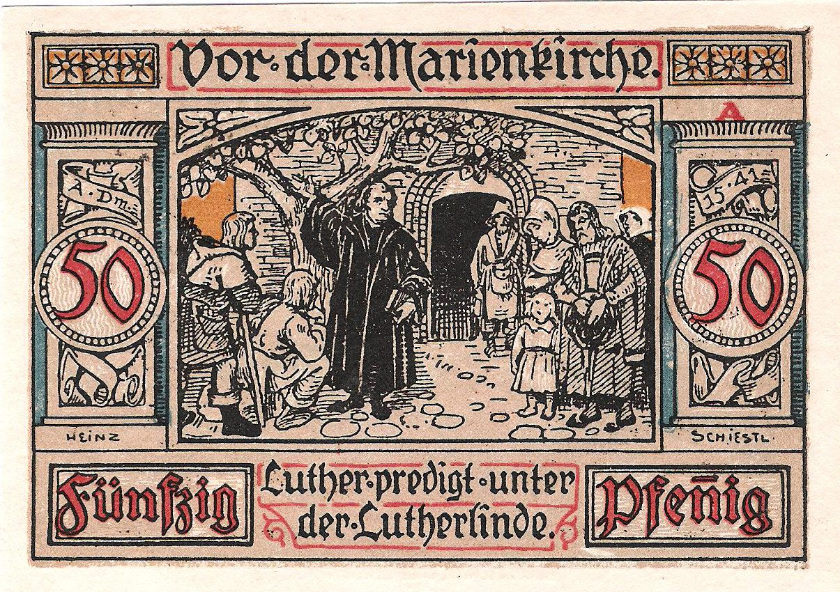 local emergency money, Treuenbrietzen 1921